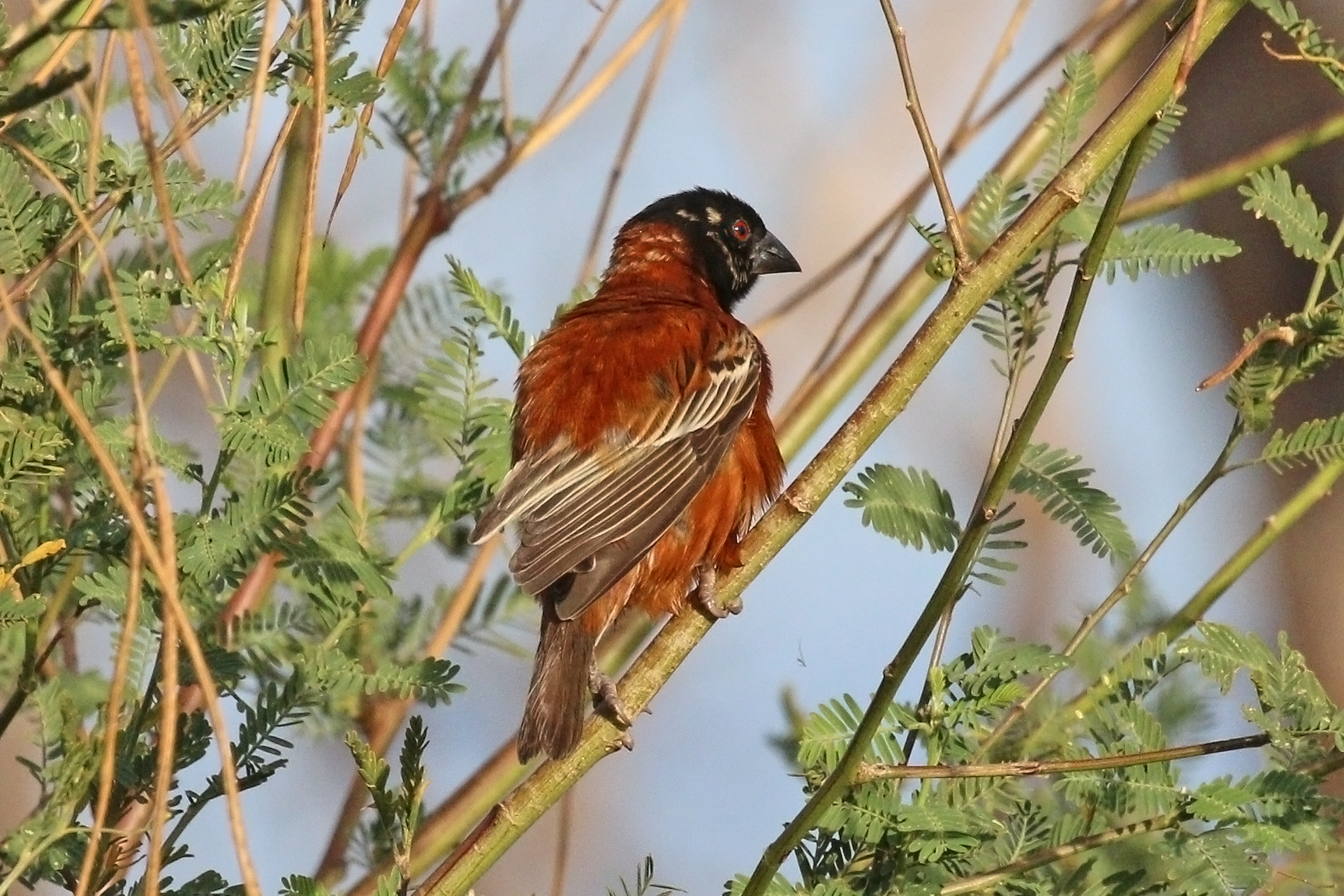 Chestnut weaver (Ploceus rubiginosus) male, Lake Baringo, Kenya